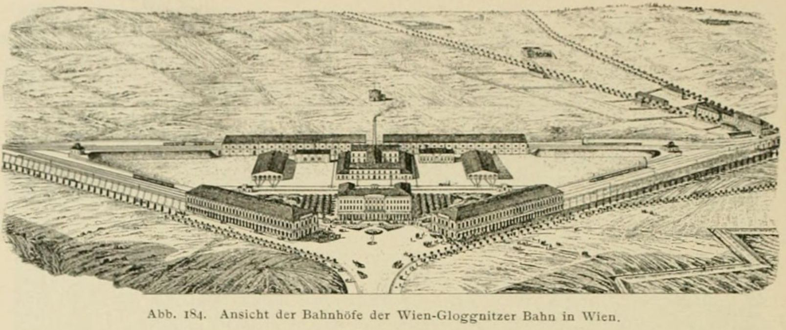 Perspective of the rail stations from the Wien-Gloggnitzer Bahn in Vienna